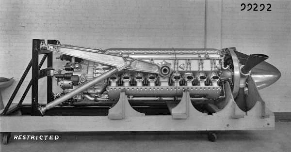 Chrysler IV-2220 engine. Note the extremely long profile, large accessory section on the left (which includes the twin turbochargers), and the "gap" in the middle where the reduction gearing is located.